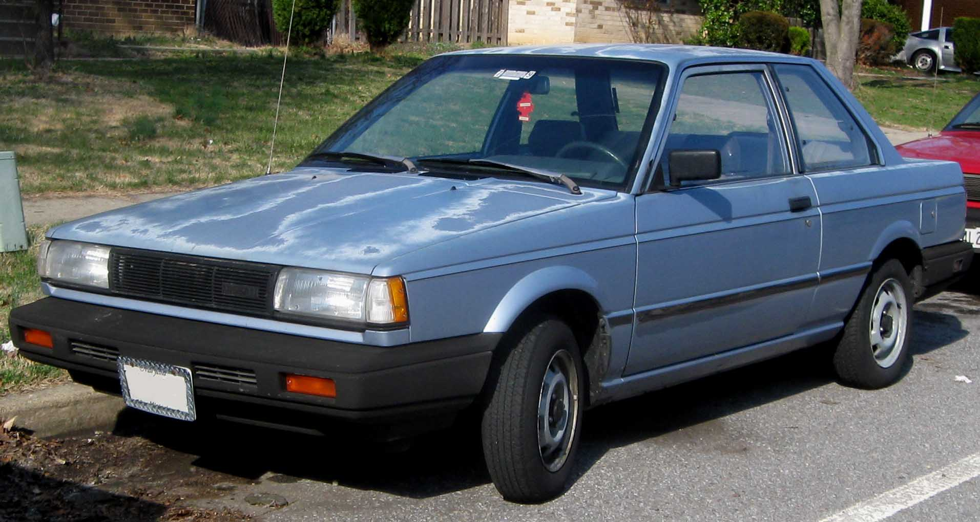 1987-1988 Nissan Sentra photographed in Fort Washington, Maryland, USA.